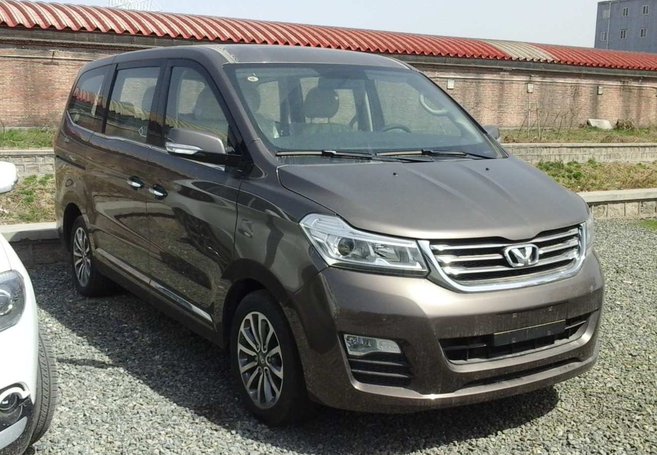 Huasong 7 photographed in Beijing, China.